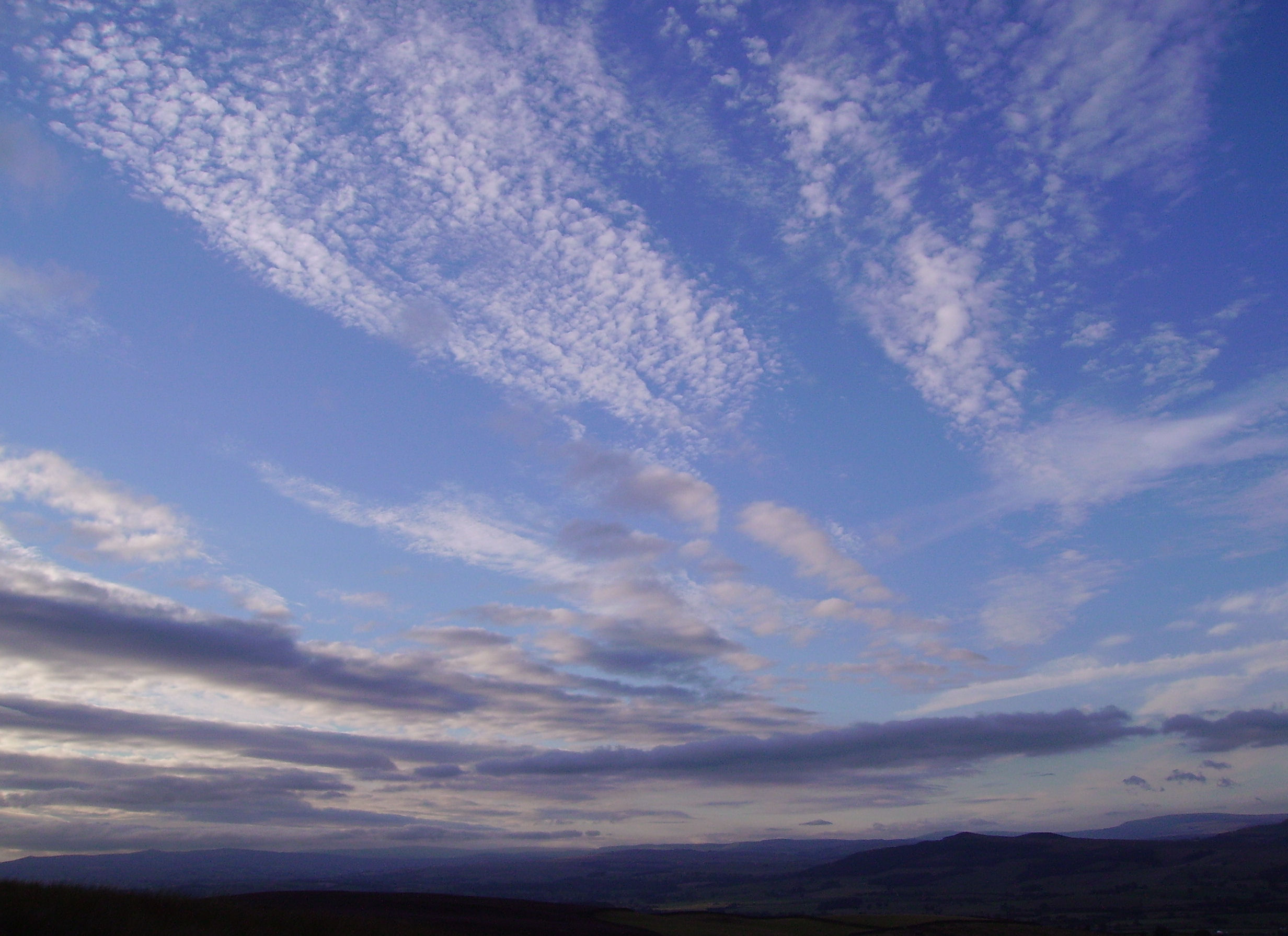 view of Carleton in Craven in North Yorkshire, United Kingdom